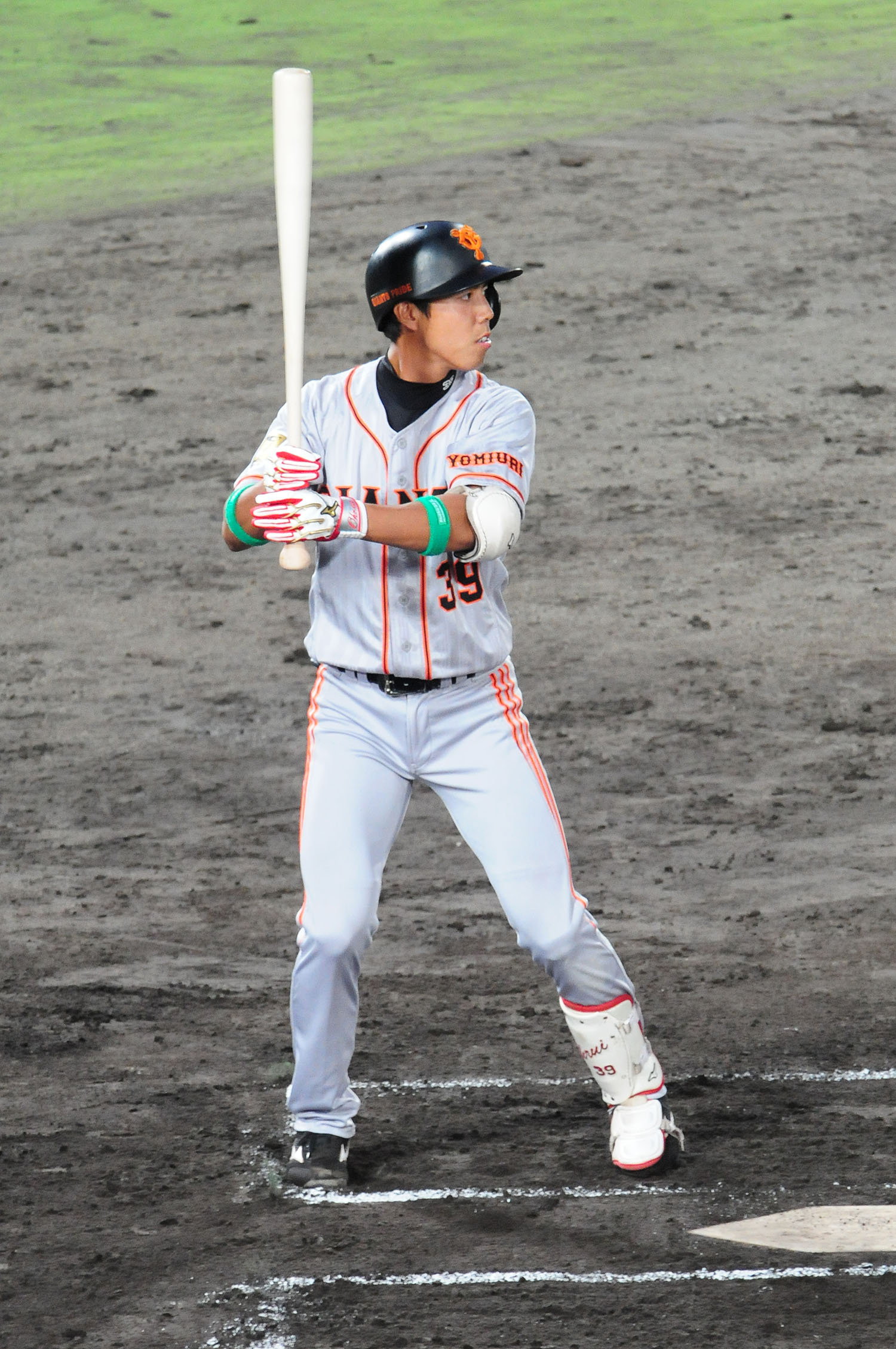 Susumu Ohrui, infielder of the Yomiuri Giants, at Akita Prefectural Baseball Stadium.